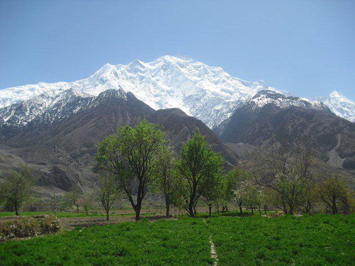 Nasirabad, Hunza Valley, Rakaposhi view